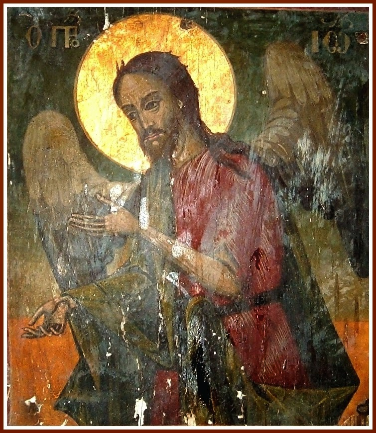 Saint John the Baptist Icon Yannochori (Yanoveni) Church